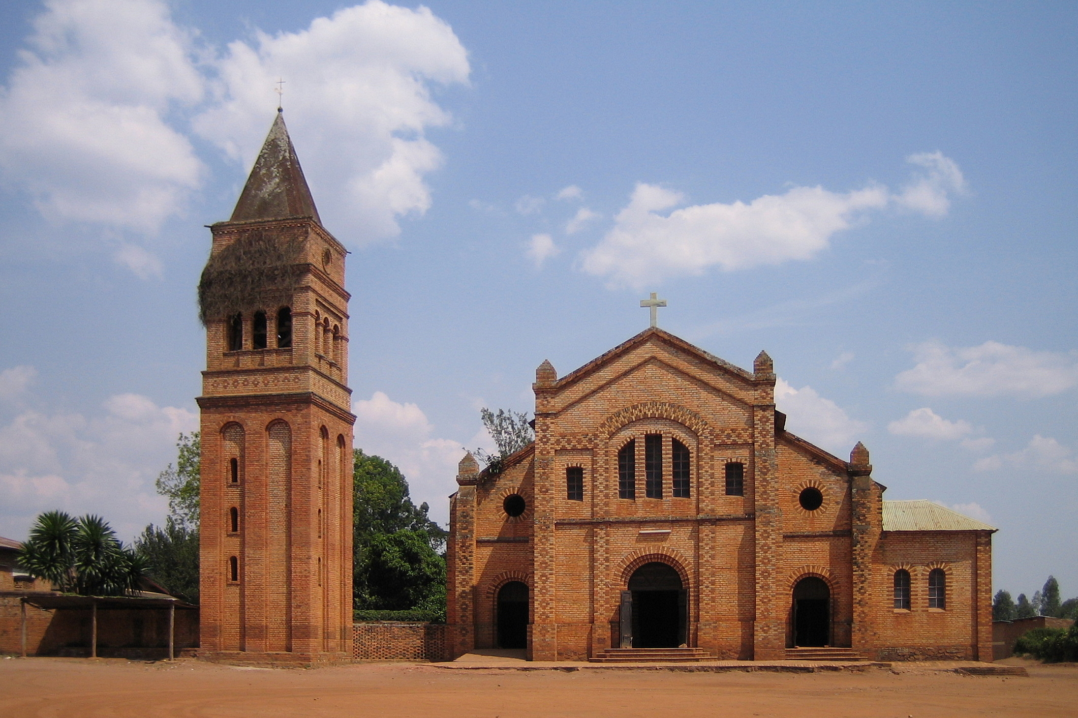 Parish Church, Rwamagana, Rwanda. Church was built ( open 4/11/1934 ) by Peter Johannes Josephus van Heeswijk ,Africa mission (born in Son en Breugel - The Nederlands in 1/4/1882 - Rwamagana 21/5/1960